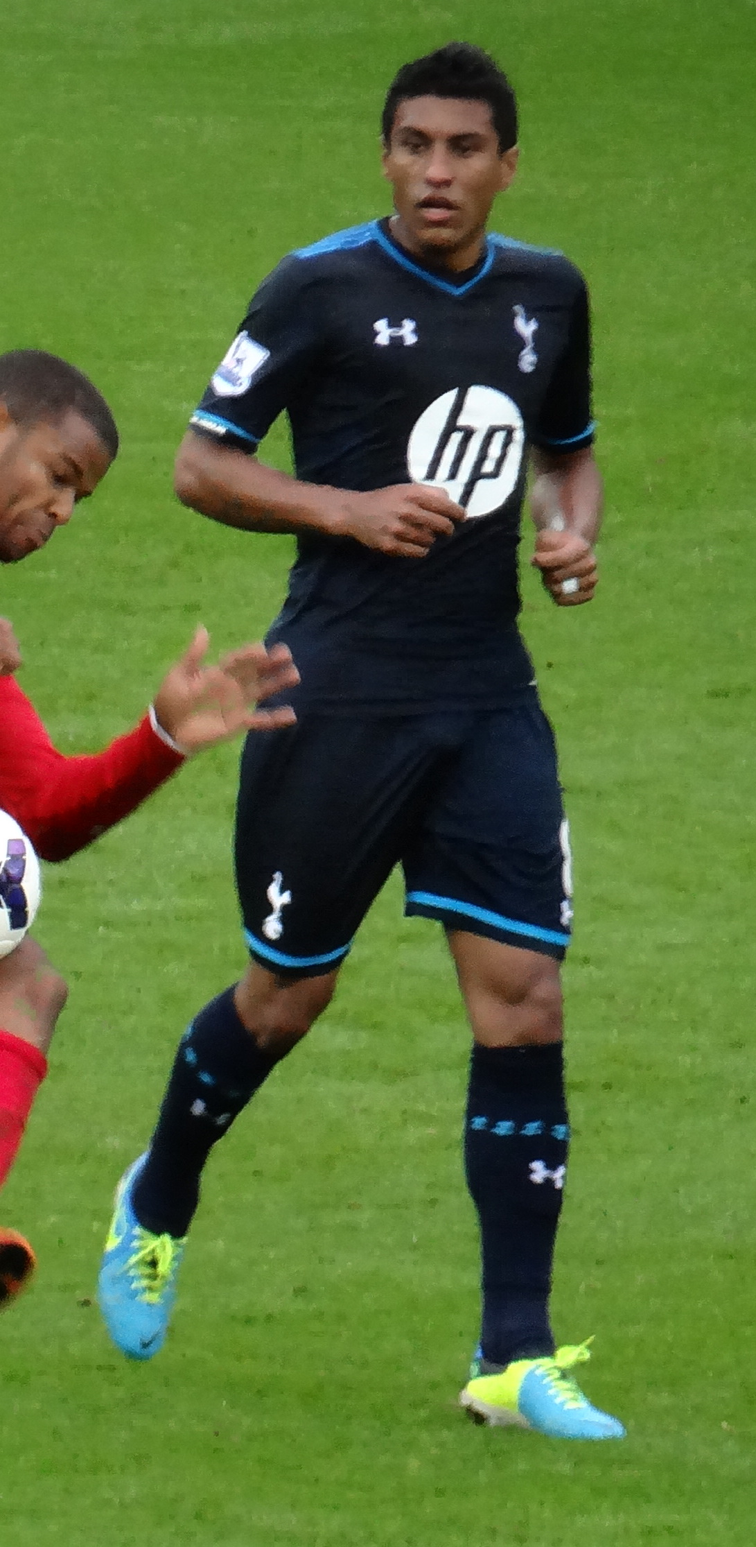 Paulinho playing for Tottenham Hotspur.